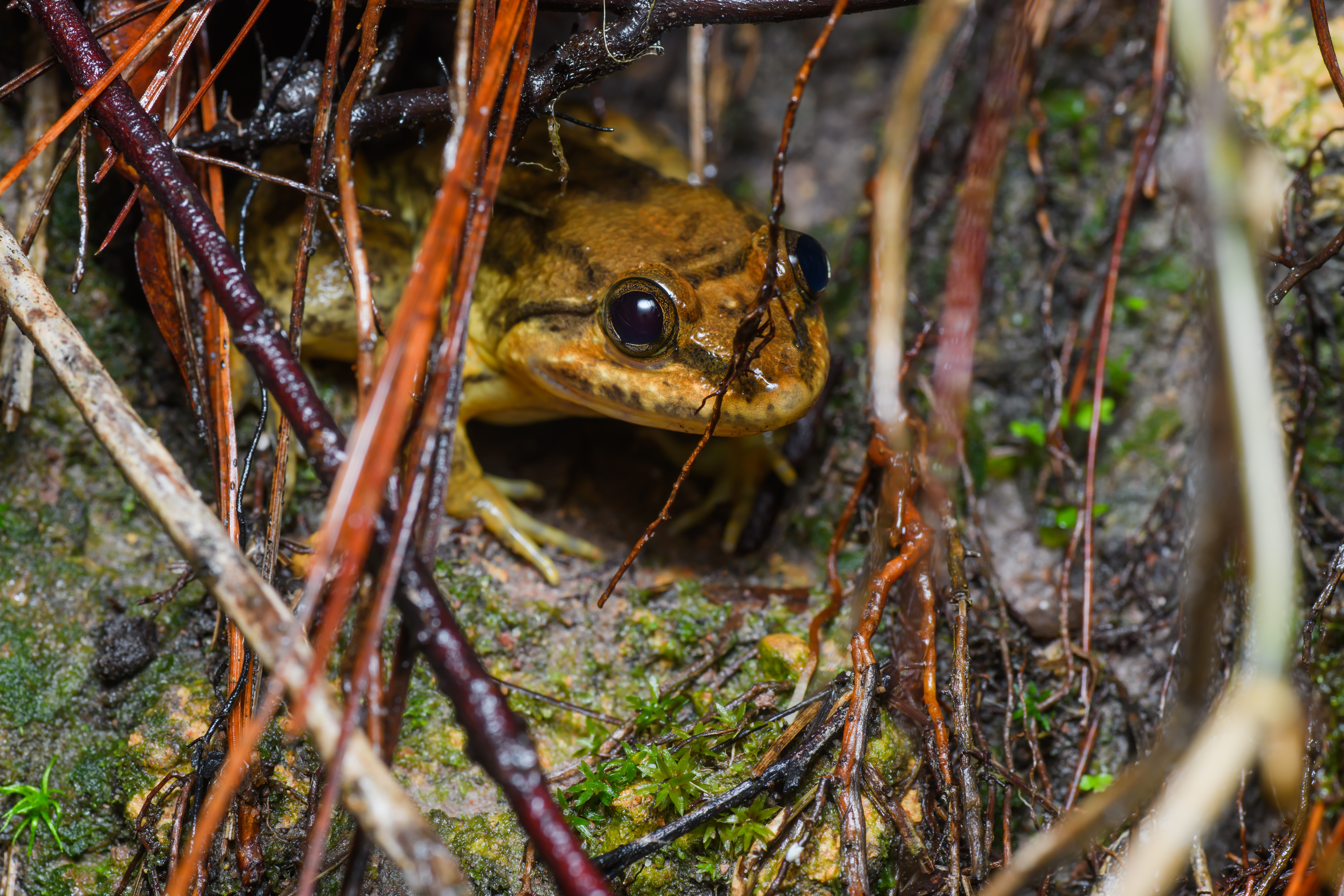 Limnonectes isanensis, Isan big-headed frog - Phu Kradueng National Park. Photo by Thai National Parks